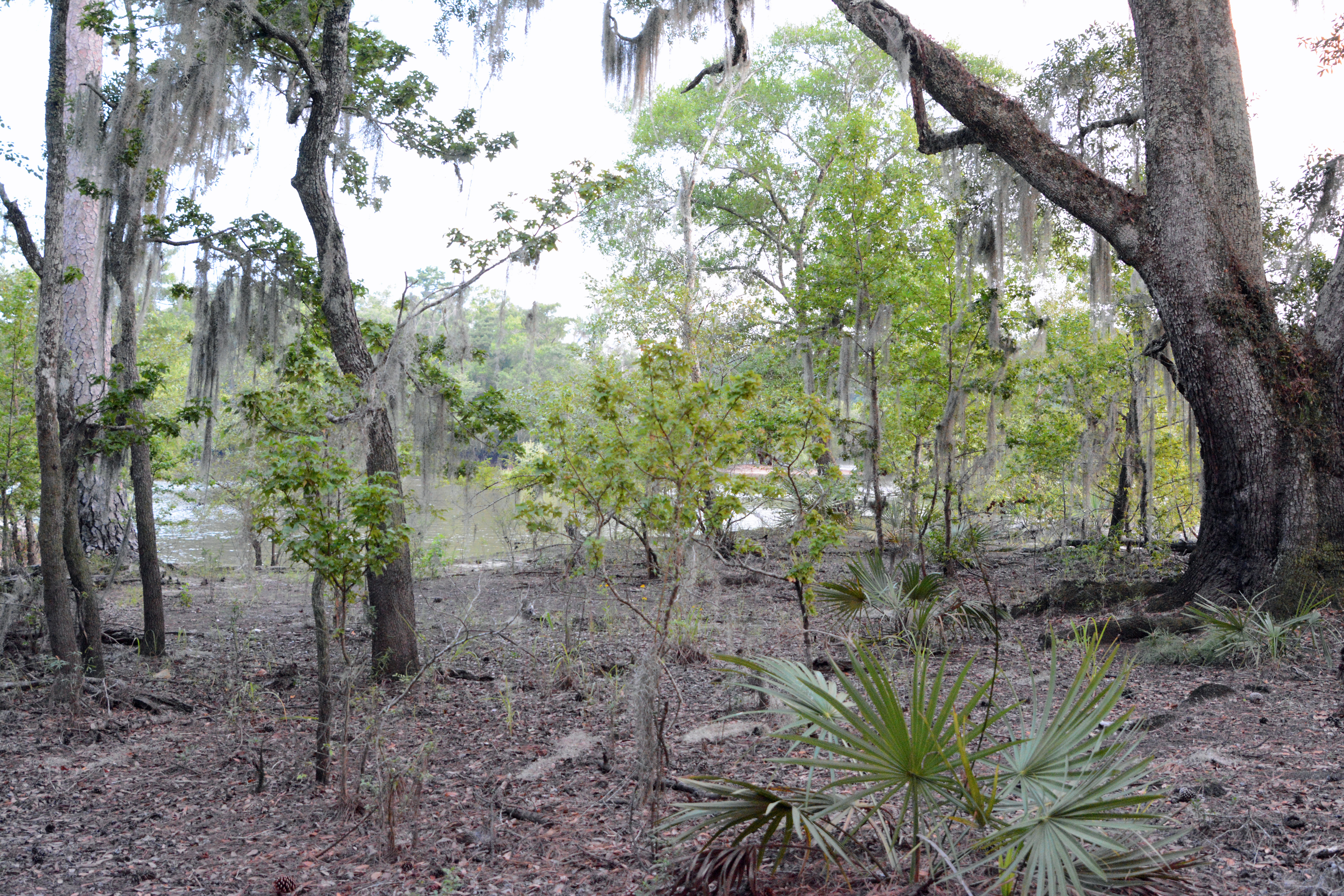 The site of Fort Barrington in McIntosh County, Georgia, US